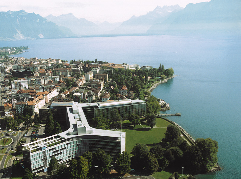 Nestle's headquarters